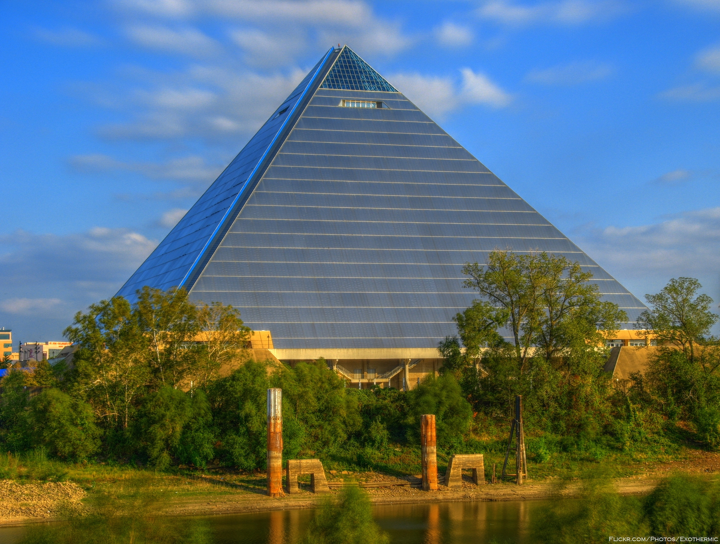 High Dynamic Range Image of the Pyramid of Memphis, Tennessee. Created from 13 exposures, and tonemapped using the Perceptual Framework for Contrast Processing of High Dynamic Range Images (Mantiuk) in Qtpfsgui. See more properties/exif data for the exact settings of the operator. Featured in Explore for Nov 12, 2007 at #198 (2007-12-04)